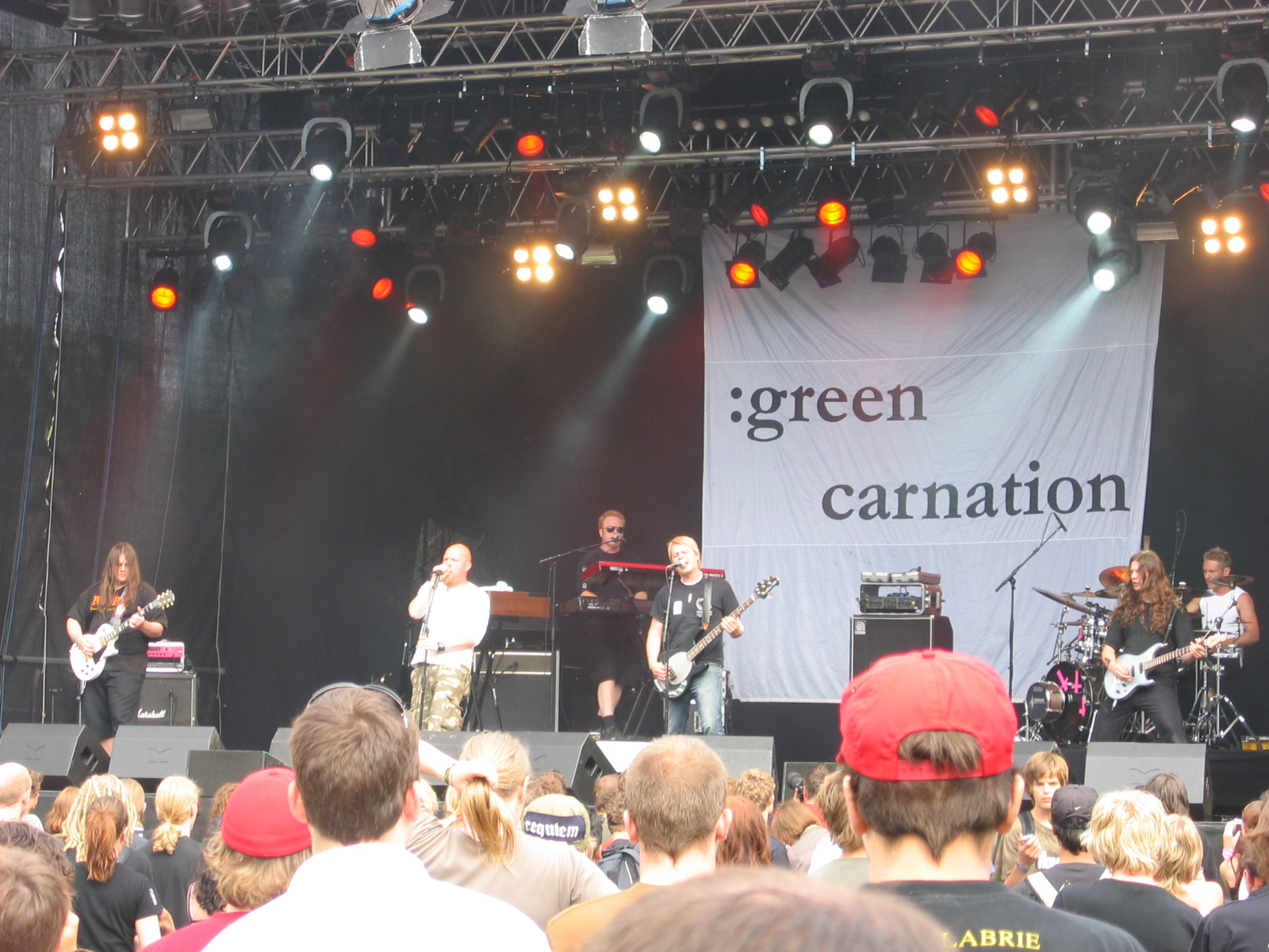 Green Carnation at the Quart Festival 2006